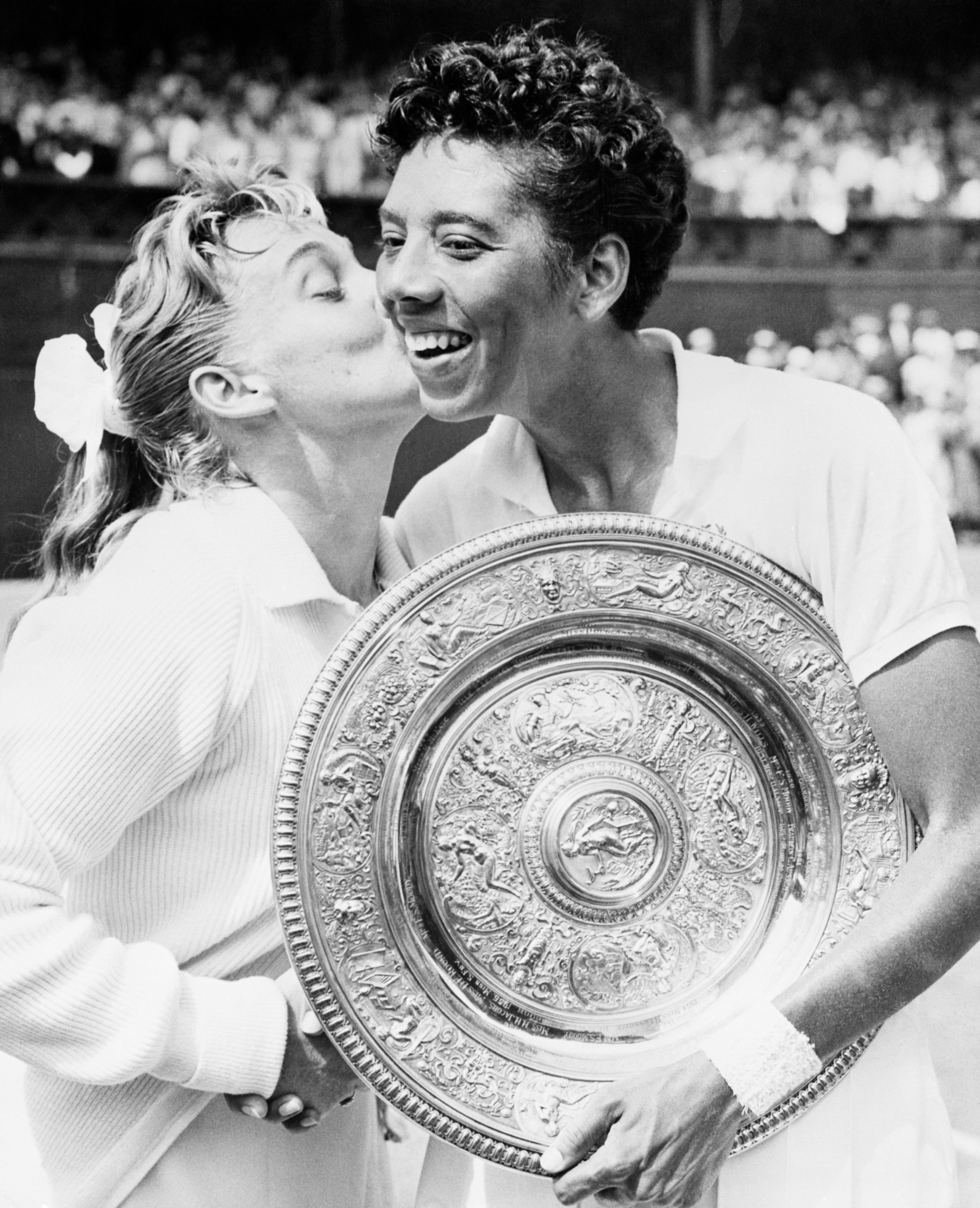 Photograph of Darlene Hard congratulating Althea Gibson upon her winning the 1957 Wimbledon Women's Singles Championship. Hard and Gibson were doubles partners, and were the 1957 Wimbledon Women's Doubles Champions. Caption reads as follows: GOOD LOSER—Darlene Hard of California kisses Althea Gibson of New York, after the Harlemite defeated her 6–2, 6–3 in the Women's Singles Tennis Championship at Wimbledon. Miss Gibson, first of her race to win the title, holds the trophy presented to her by Queen Elizabeth II. After returning to her native New York, the former Harlem paddle tennis star was afforded the traditional ticker tape welcome.